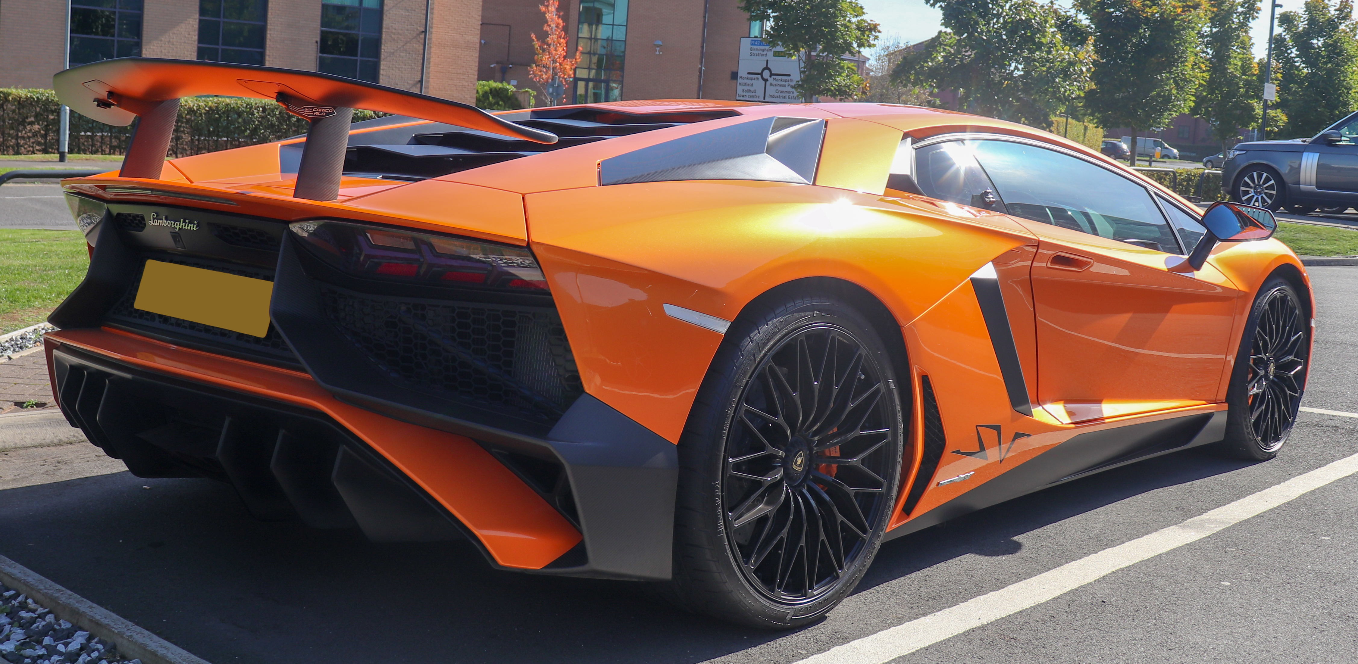 2016 Lamborghini Aventador LP 750-4 SV S-A 6.5 Rear Taken in Solihull